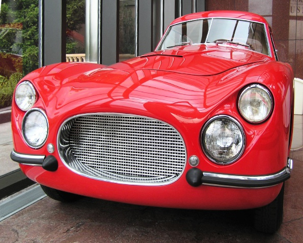 1955 Fiat 8V ("Otto Vu") Berlinetta Coupe, 1 of only 3 built by Fiat. Blackhawk Museum in Danville, CA.